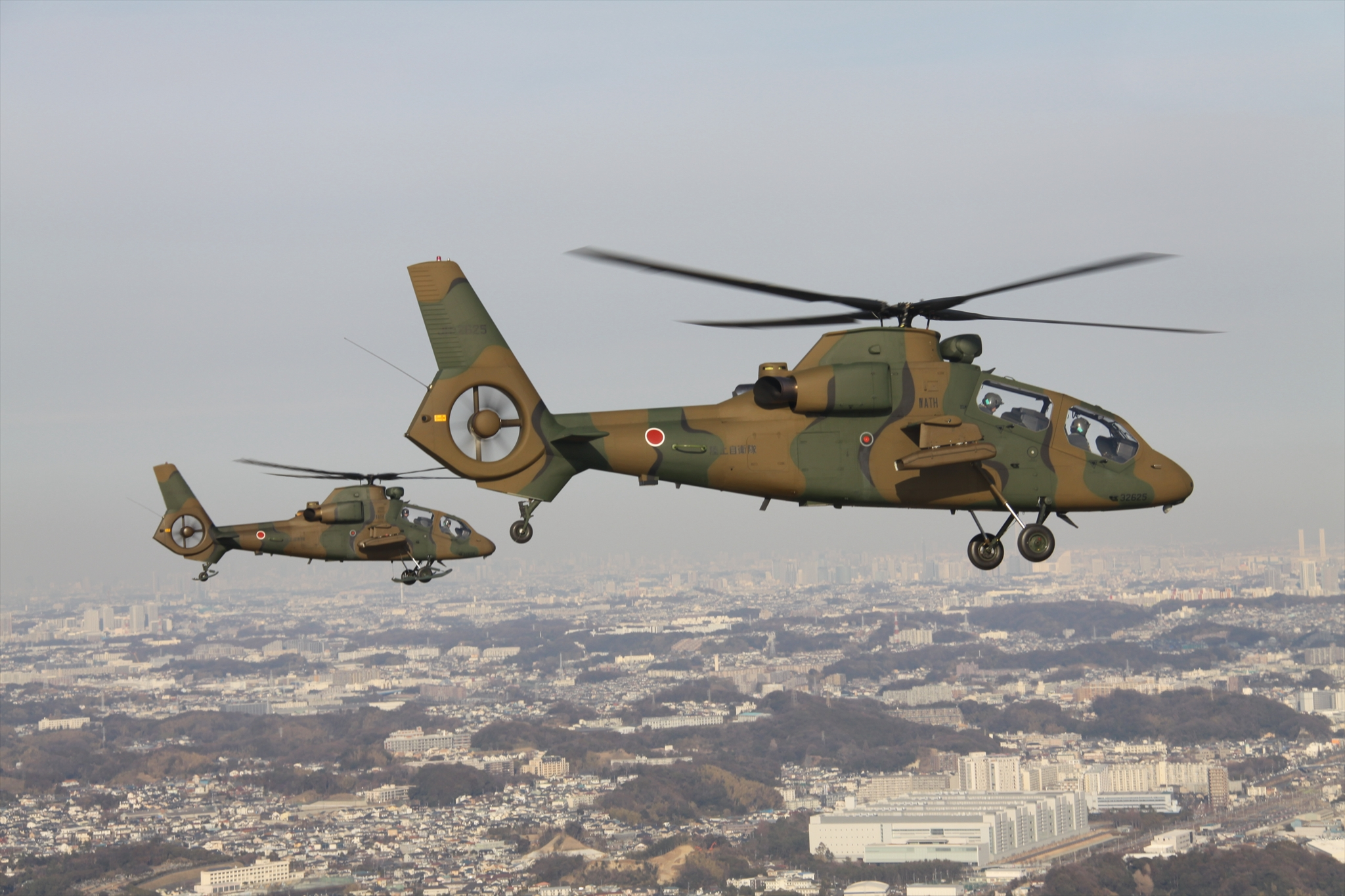 Title ＯＨ－１24.01.10 東方航・初飛行_R.JPG Album 装備 ＯＨ－１（飛行訓練・東部方面航空隊）